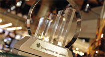 The Award for the winners of "Entrepreneuers of the Year" 2013